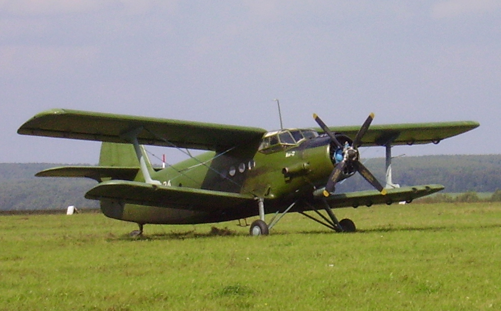 An-2 at Bogorodsk airfield, Nizhny Novgorod Oblast, Russia